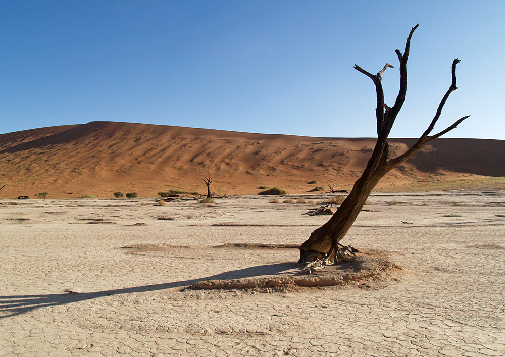 Dead Vlei clay pan near Sossusvlei in Namib-Naukluft Park, Namibia